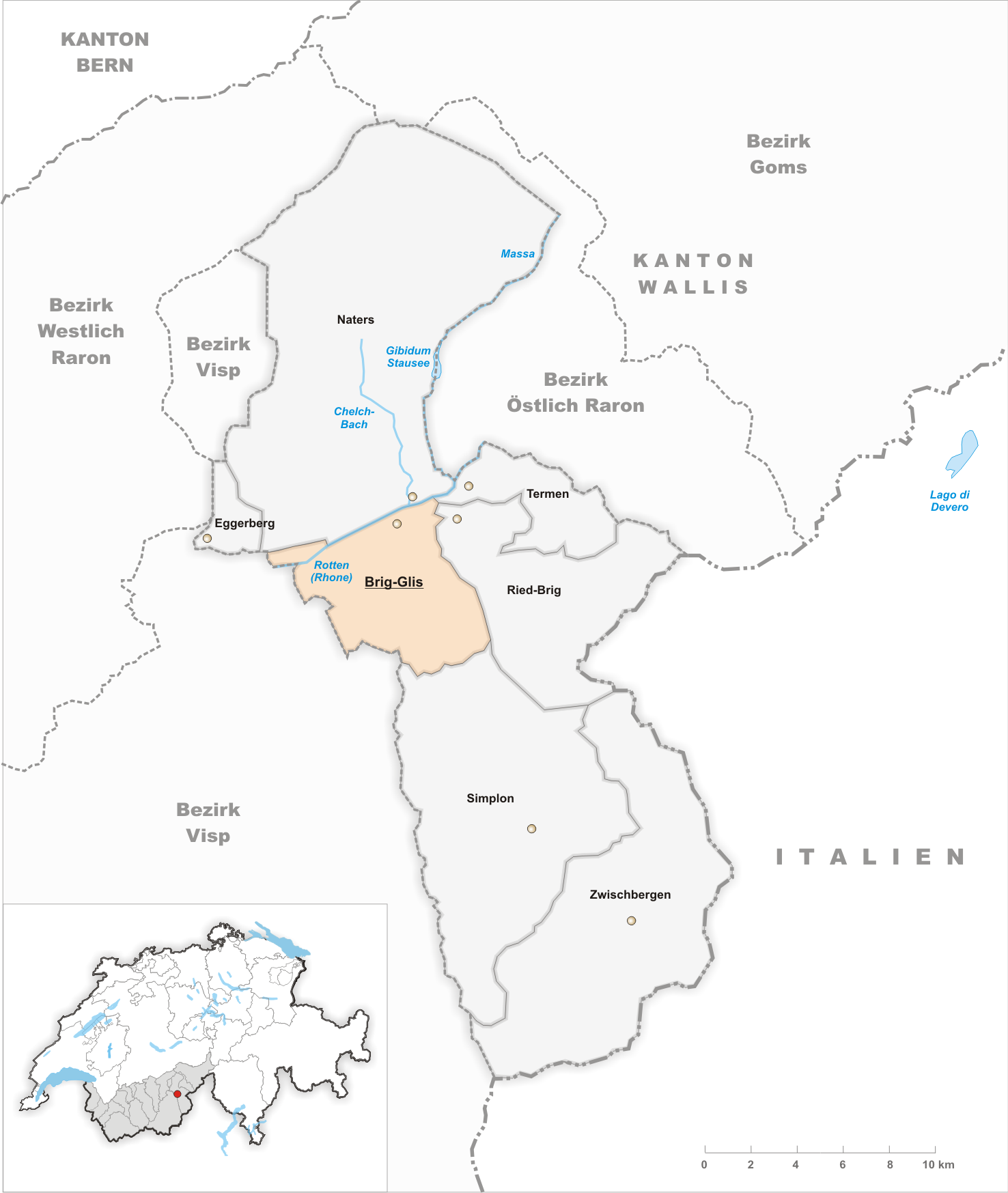 Municipality Brig-Glis